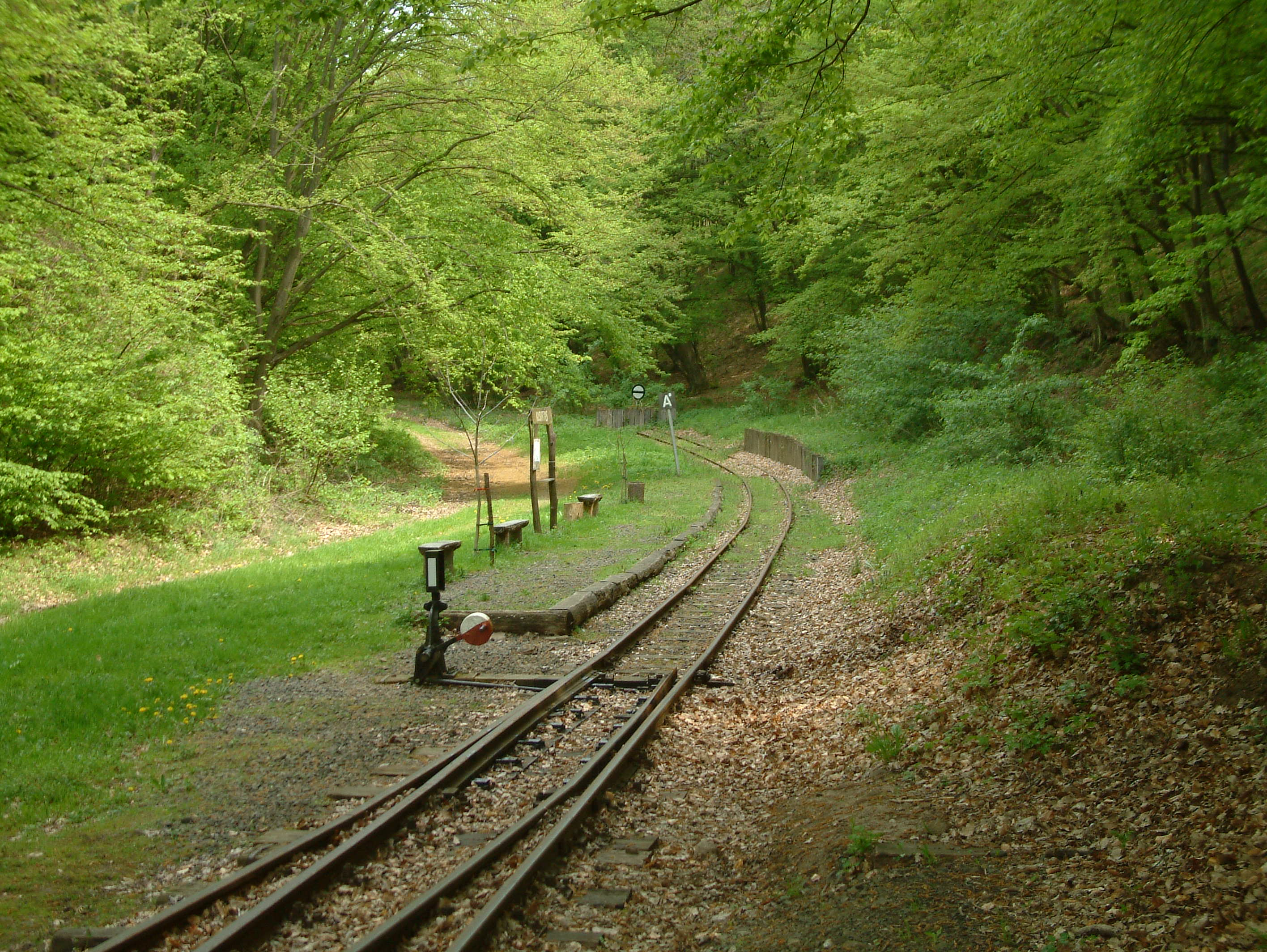 Kisirtás narrow gauge railway station